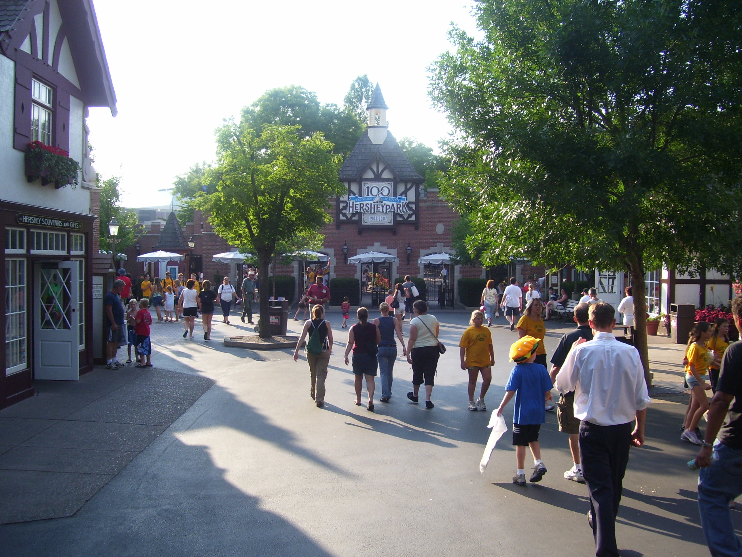 Picture of the Hersheypark exit gate. I took this photo myself on July 17, 2007 in Hershey, PA.